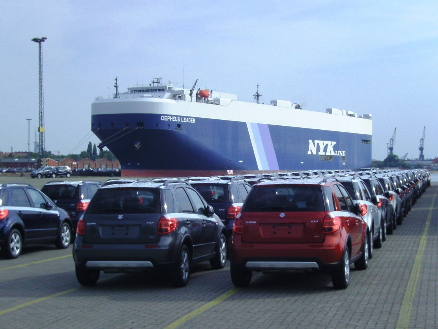 The car carrier Cepheus Leader in the port of Bremerhaven